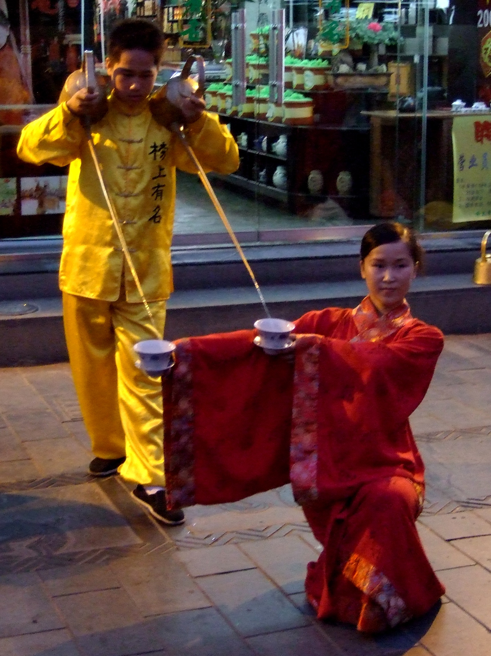 Tea pouring in Chengdu